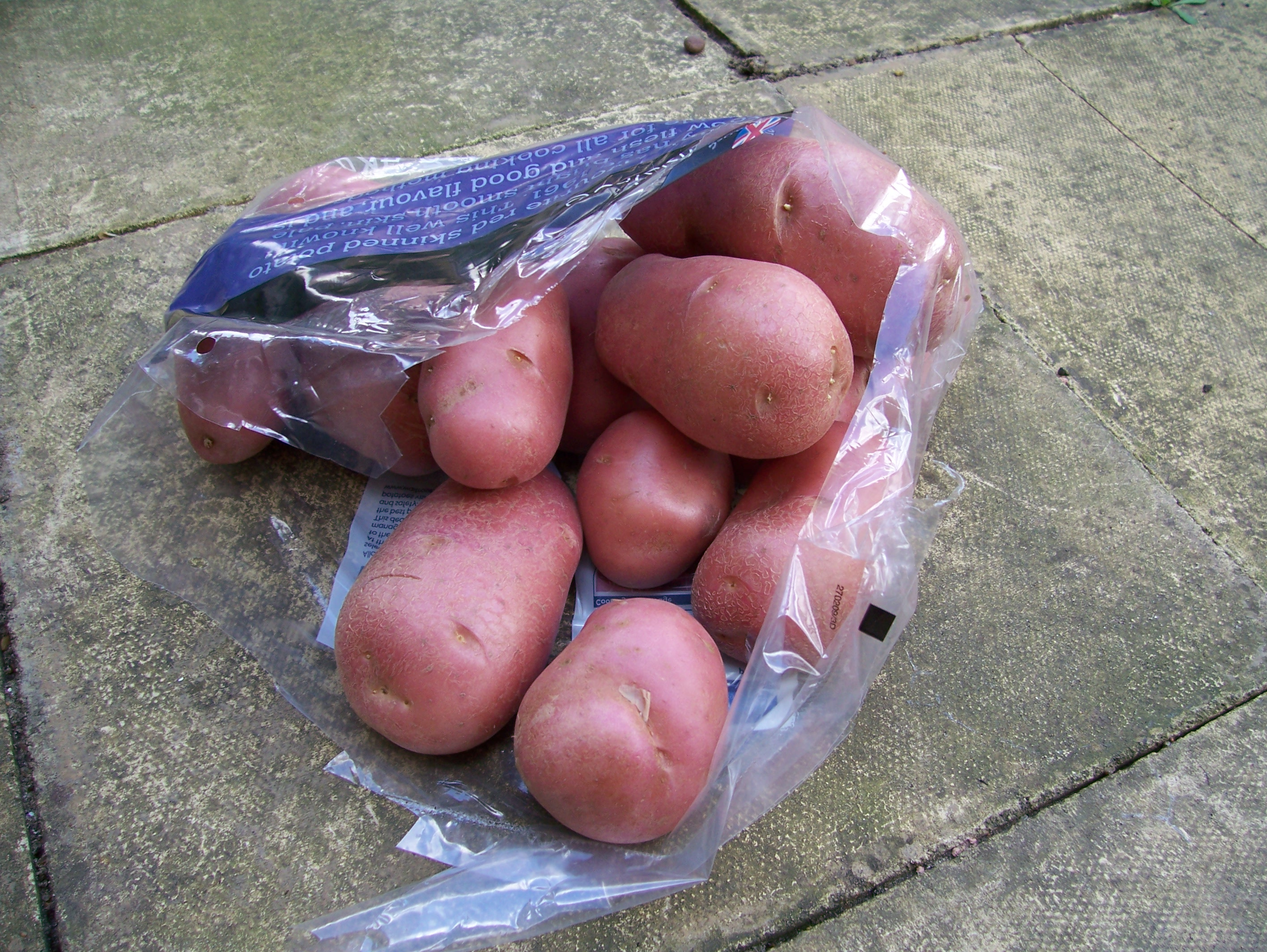 Désirée Potatoes from Waitrose